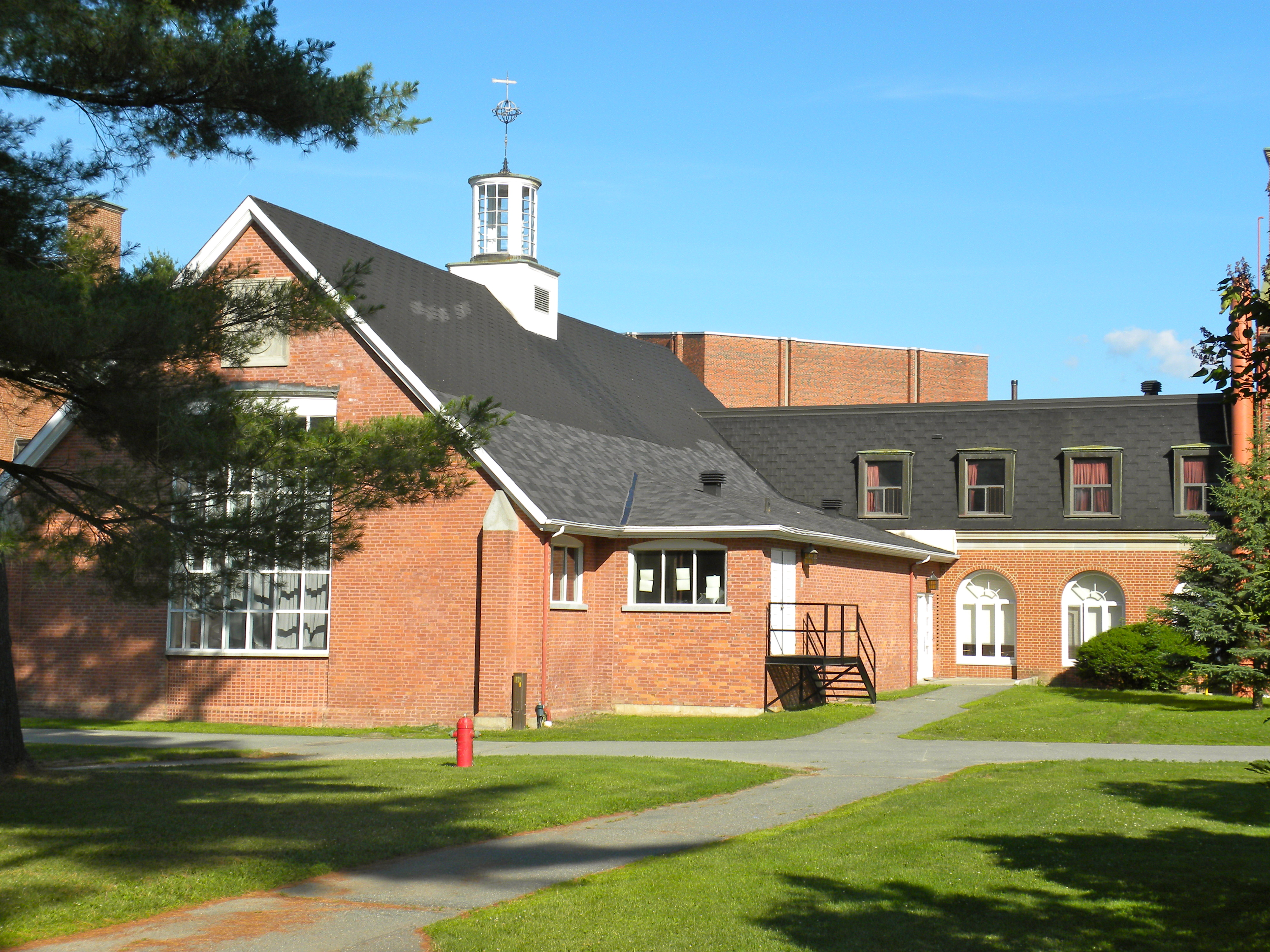 Bishop's University in Lennoxville, QC